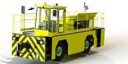 hy-rail zweiweg vehicle RETRAC-2000